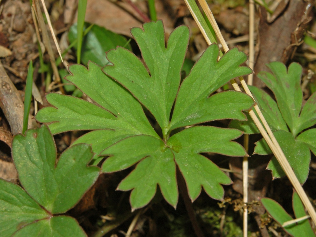 Anemone hortensis - Genova, Italy